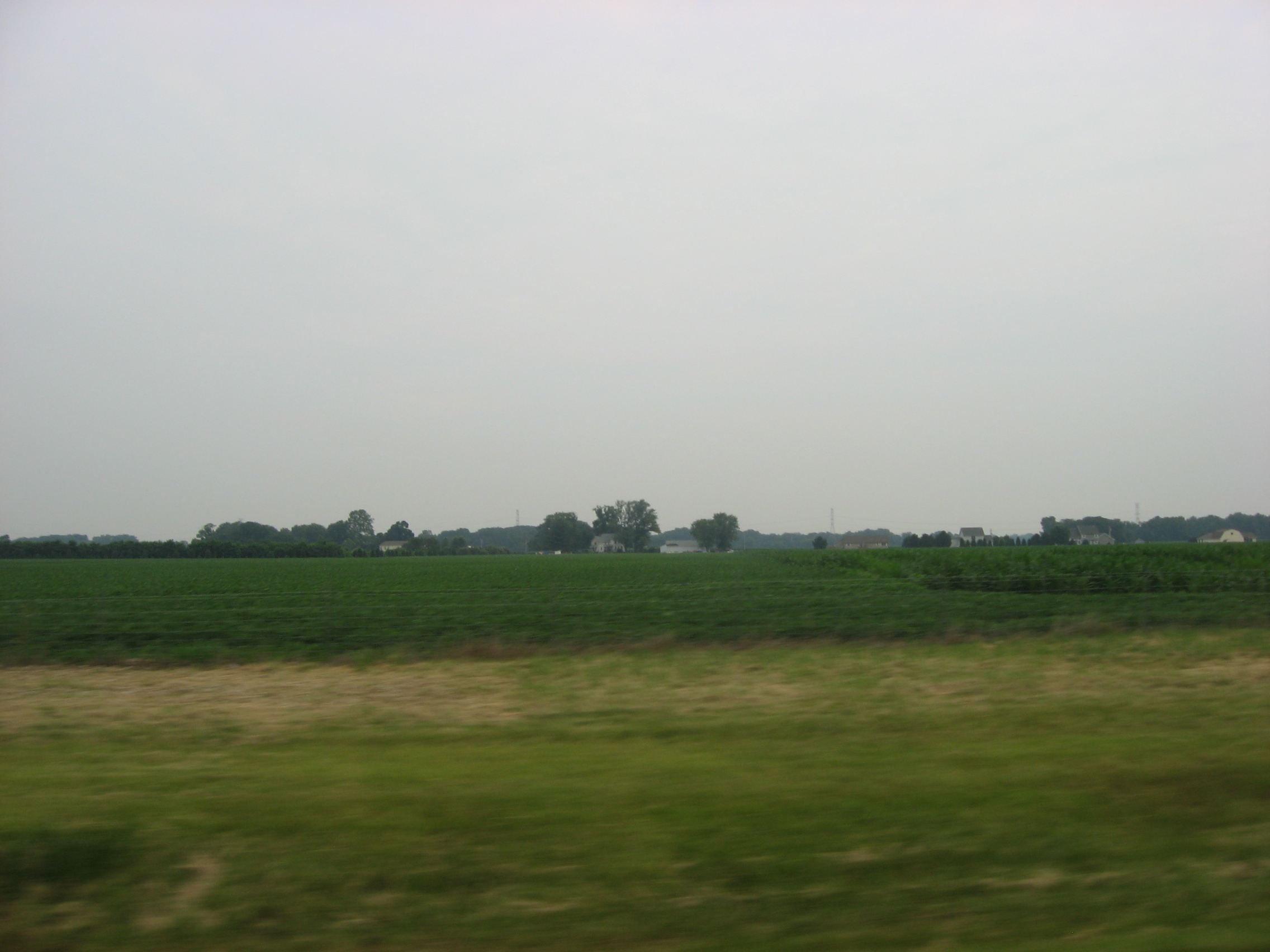 Countryside in eastern Milan Township, Erie County, Ohio, United States. Picture taken looking northward from the concurrent Interstates 80/90 (the Ohio Turnpike).